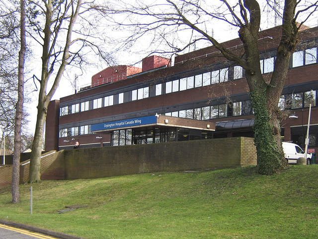 Orpington Hospital During the First World War, Orpington was the home of what was first known as the Ontario Military Hospital, before becoming No 16 Canadian General Hospital in September 1917. At the time it was said to be one of the largest and most up to date military hospitals in the world. The hospital ceased to be a specific military hospital in September 1919, but was developed into the current Orpington Hospital. This building, called the Canada Wing in commemoration of the site's history, was completed in 1982 as part of the proposed redevelopment of the entire 39 acre site into a modern district general hospital, providing full services, including A&E. However, revised plans in the 1990s were for a new central hospital to be built in Bromley covering the whole of the district. Despite vigorous campaigning by the then local MP, Ivor Stanbrook, further development of the Orpington Hospital site ceased and most of the site has now been built on with housing. The hospital now covers only a limited range of services, with no A&E, for example. Ironically, further changes of plans meant that the Bromley Hospital development never came to fruition - instead Farnborough Hospital was redeveloped into the Princess Royal University Hospital, opened in 2003 and funded by through a PFI and various sales of land, including no doubt part of this site.